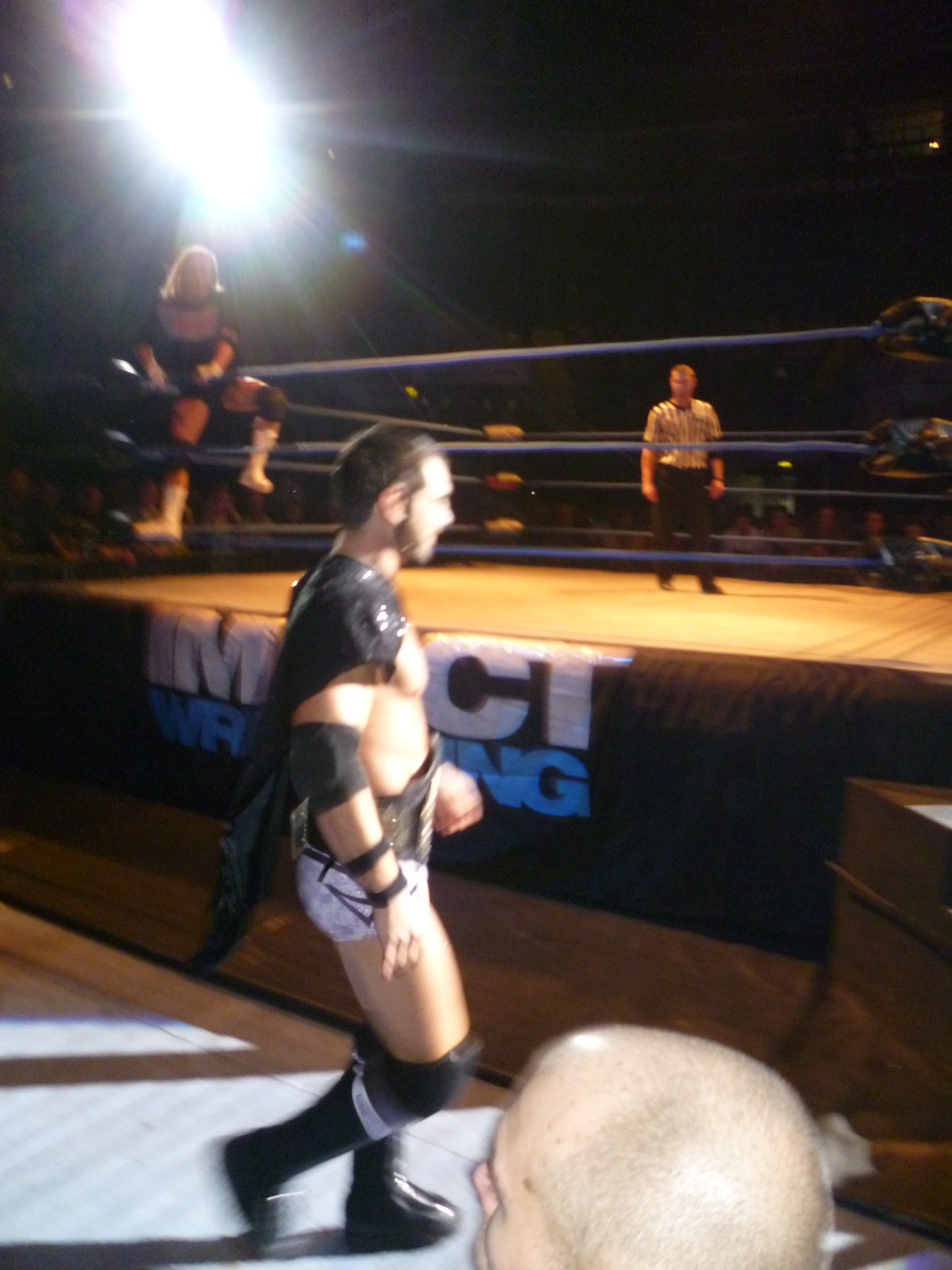 Wrestling at the Capital FM Arena, Nottingham.